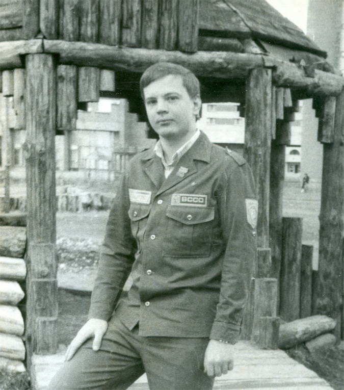 A Soviet SCB (Student construction brigade) member in uniform, 1985. The Leningrad (Saint Petersburg) State University